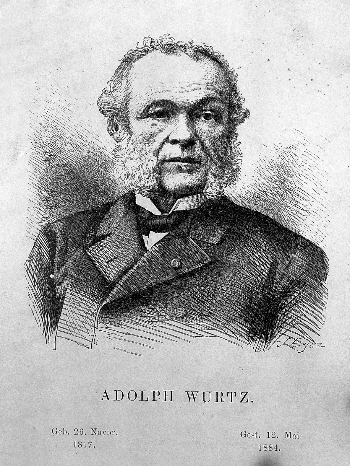 Iconographic Collections